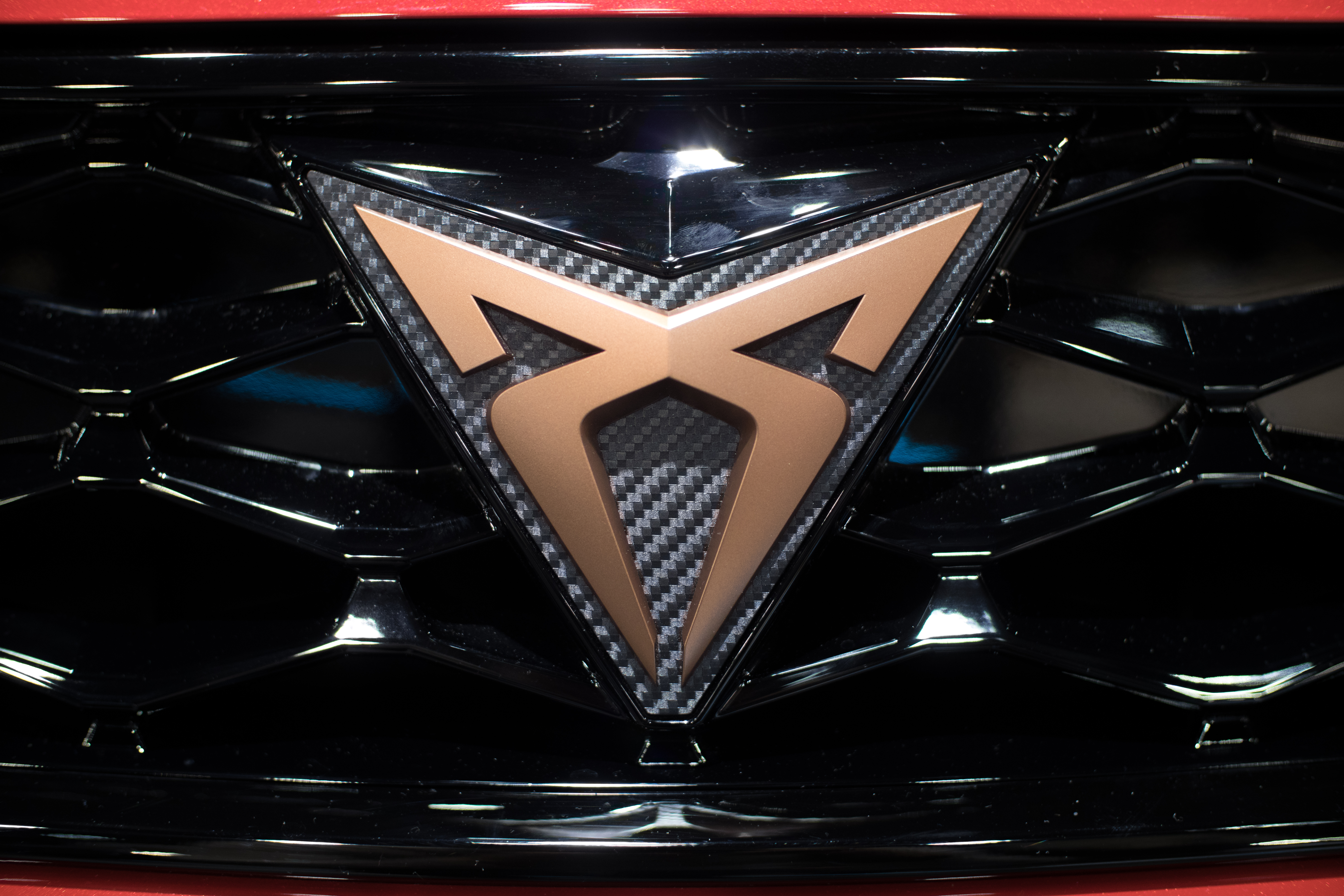 Close-up of CUPRA company logo on a car